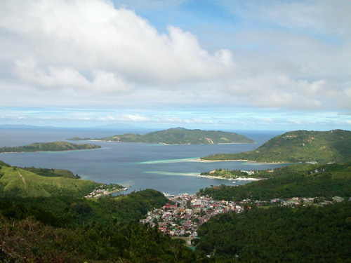 Romblon-Bay